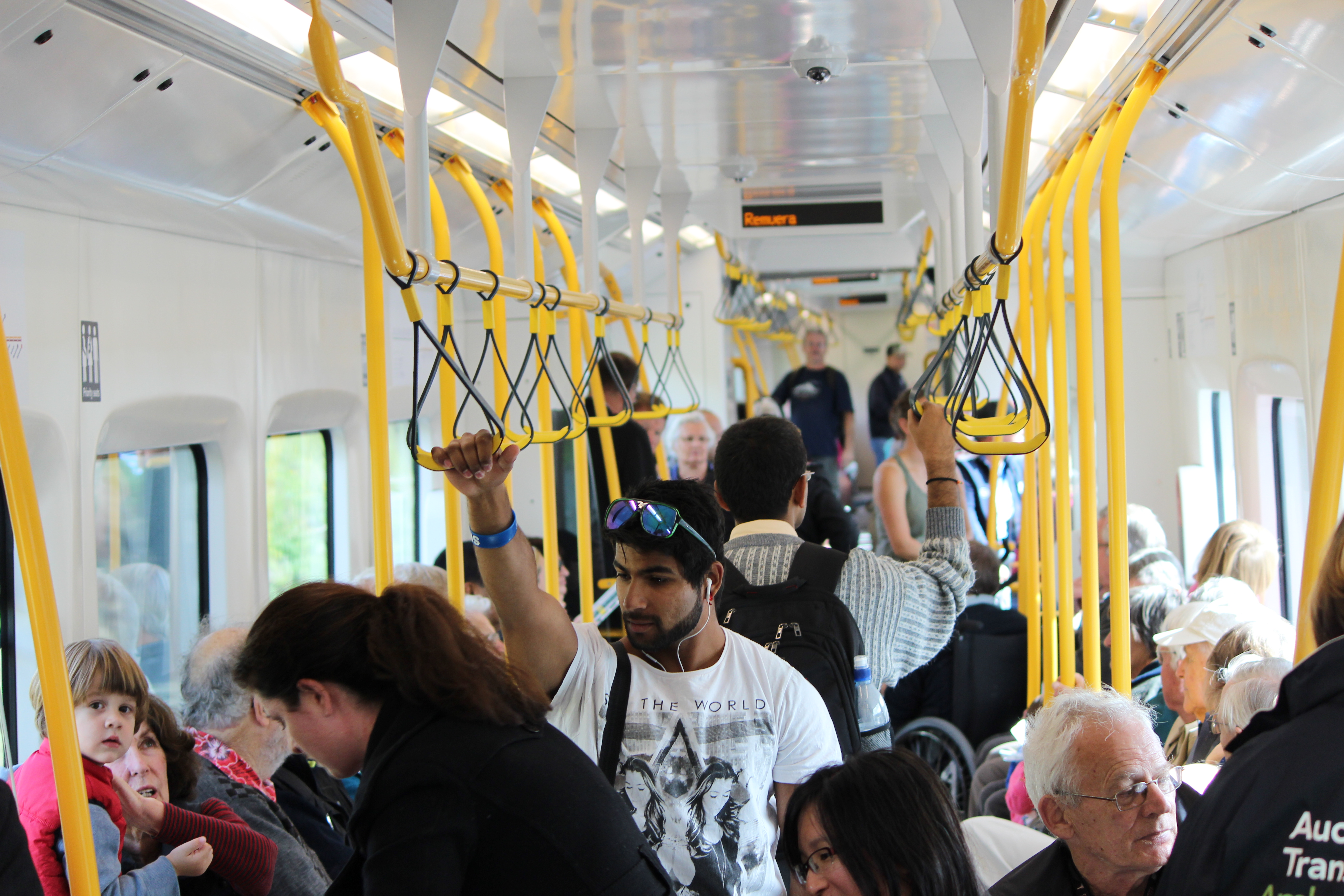 AMT Interior, First day of Service 28-04-2014